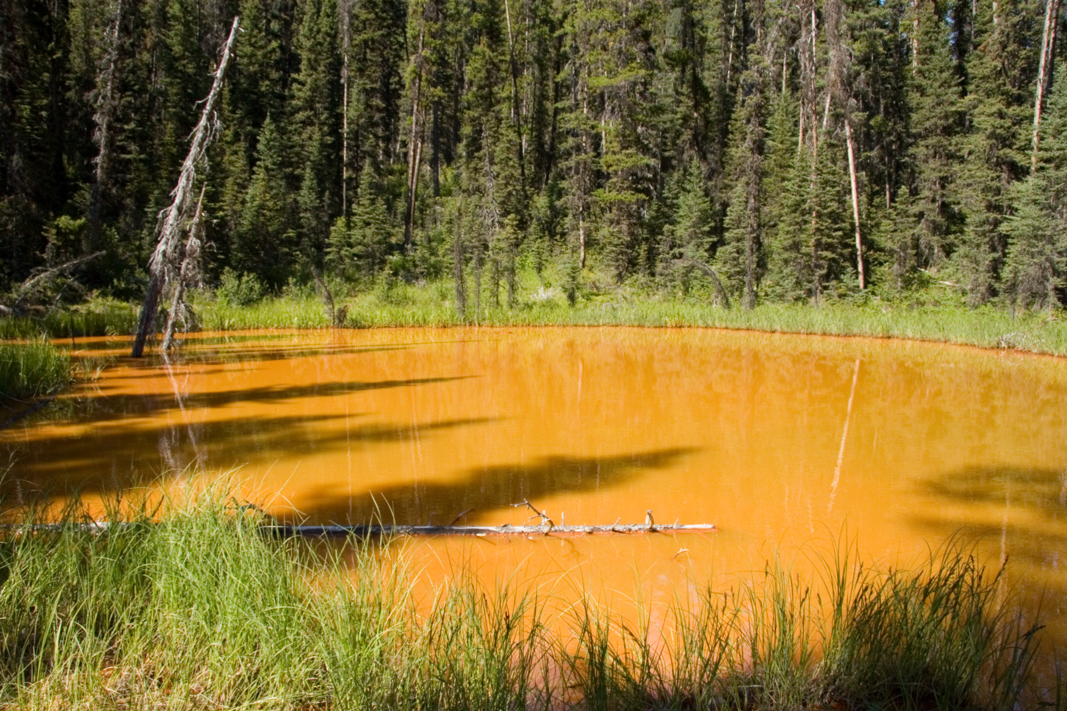 Paint Pots in , British Columbia, Canada